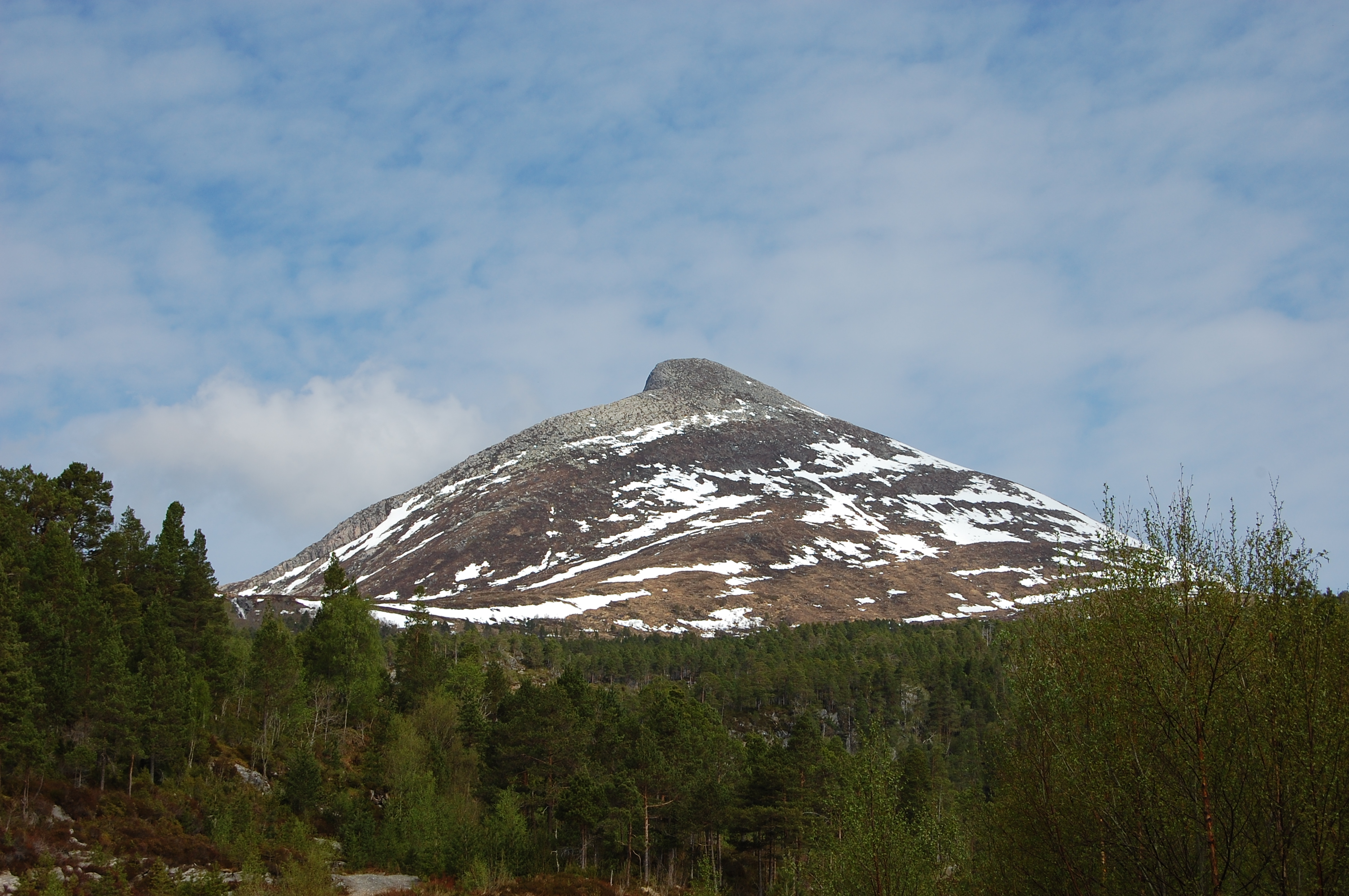 The mountain Skarven on Tustna island, Aure, Møre og Romsdal.